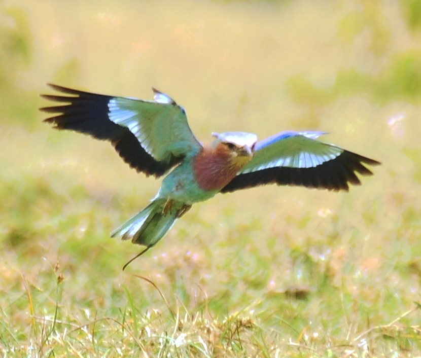 Lilac-breasted Roller hunting something in the grass in Arusha National Park, Tanzania.